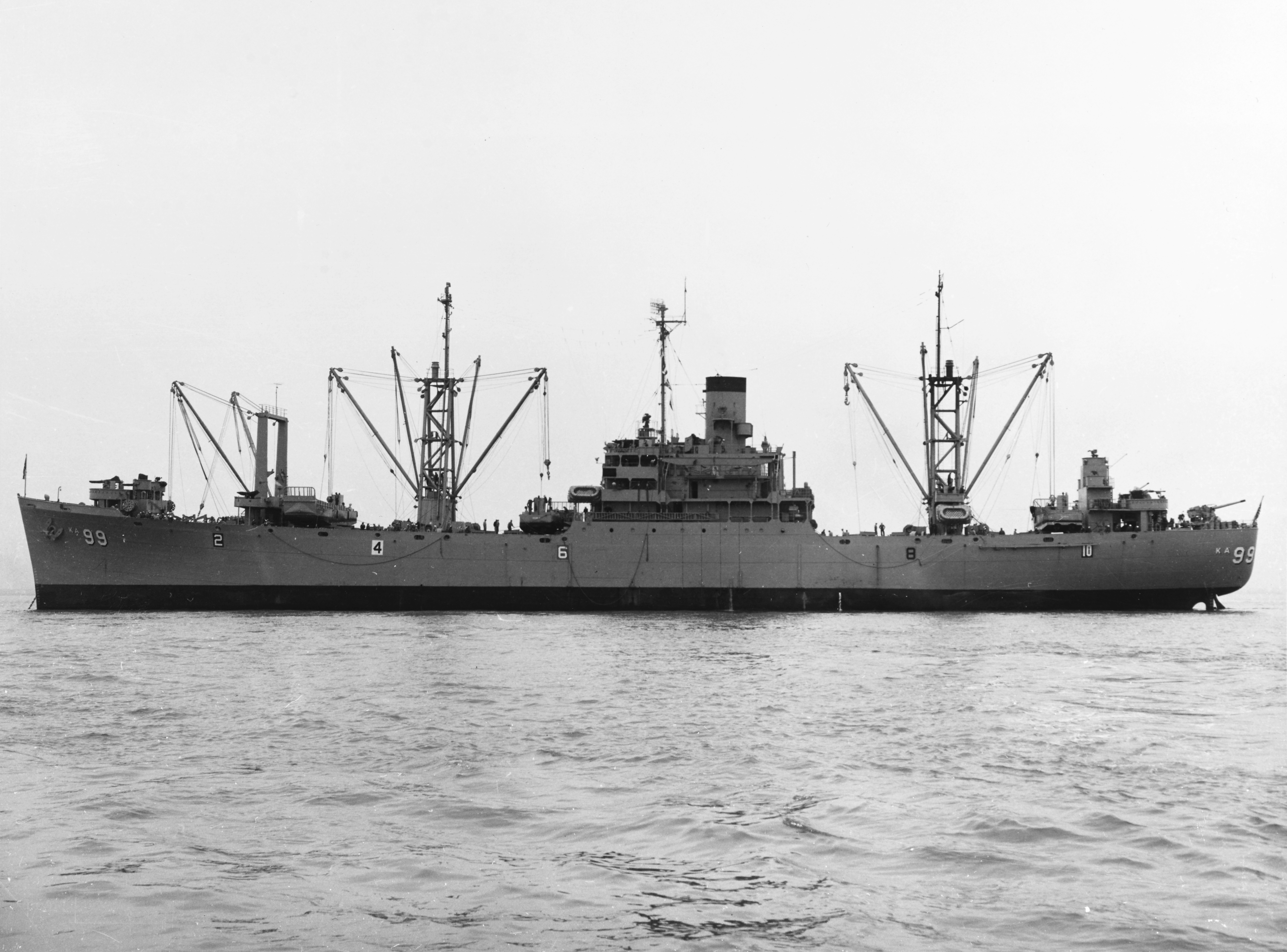 The U.S. Navy attack transport USS Rolette (AKA-99) in San Francisco Bay, California (USA), on 7 April 1952.